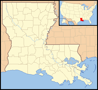 Locator Map of Louisiana, United States